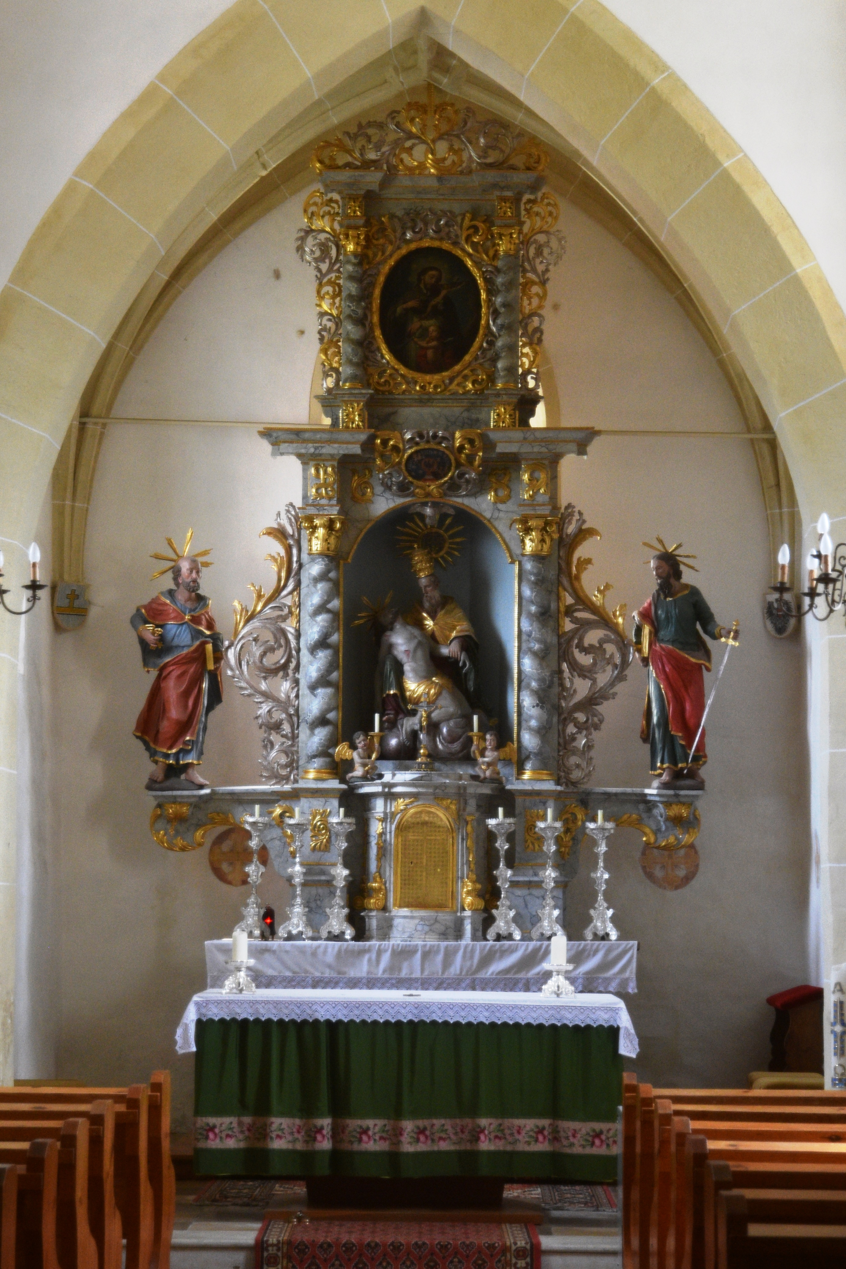 Church Bad Schönau - Interior